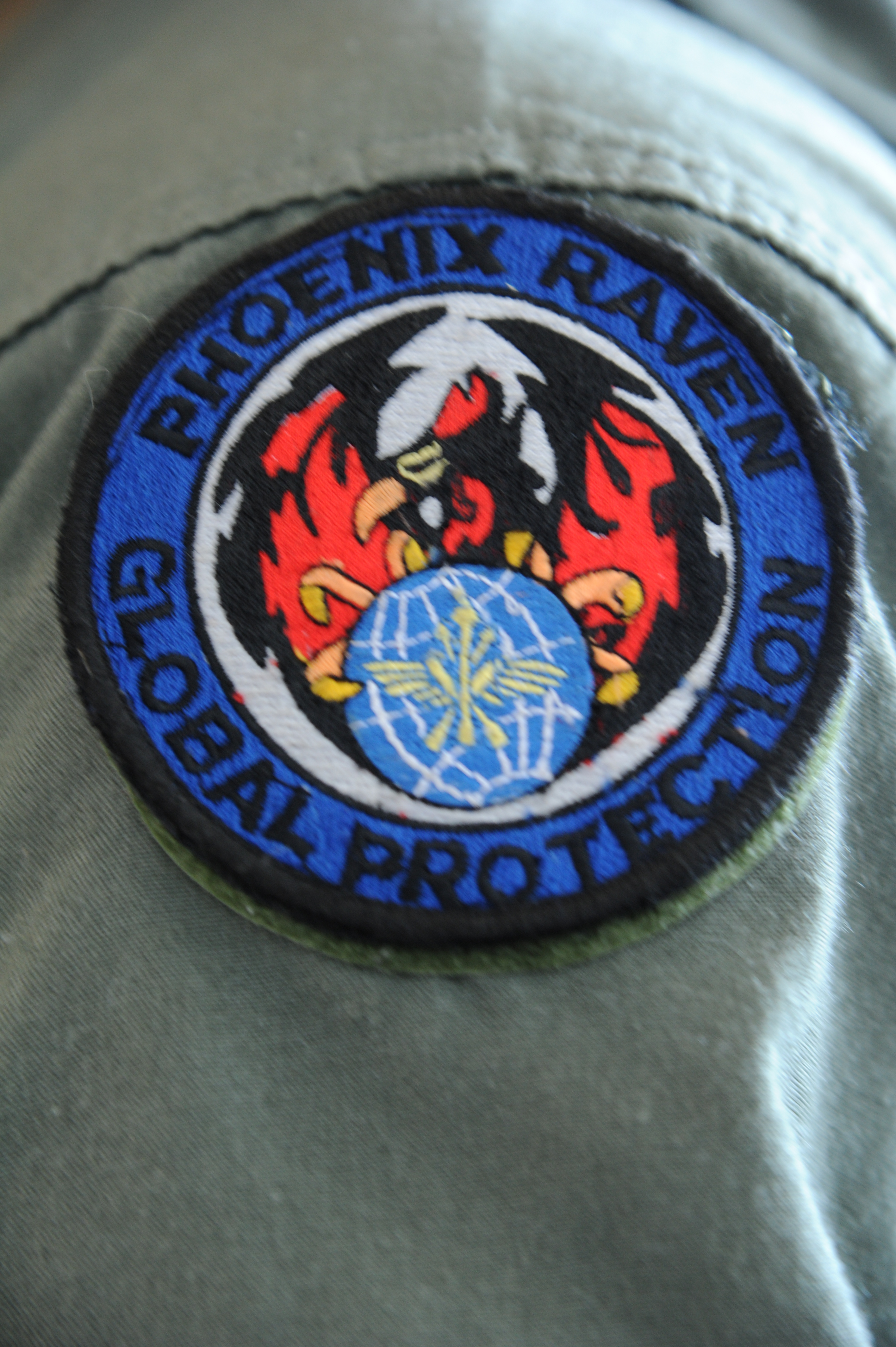 The U.S. Air Force Phoenix Ravens patch is worn only by specially trained security forces members visiting March Air Reserve Base, Calif., April 16, 2012. Raven members visited March Air Reserve Base to help prepare the 452nd Security Forces Squadron for Raven school. (U.S. Air Force photo by Staff Sgt. Jacquelyn Estrada/Released)